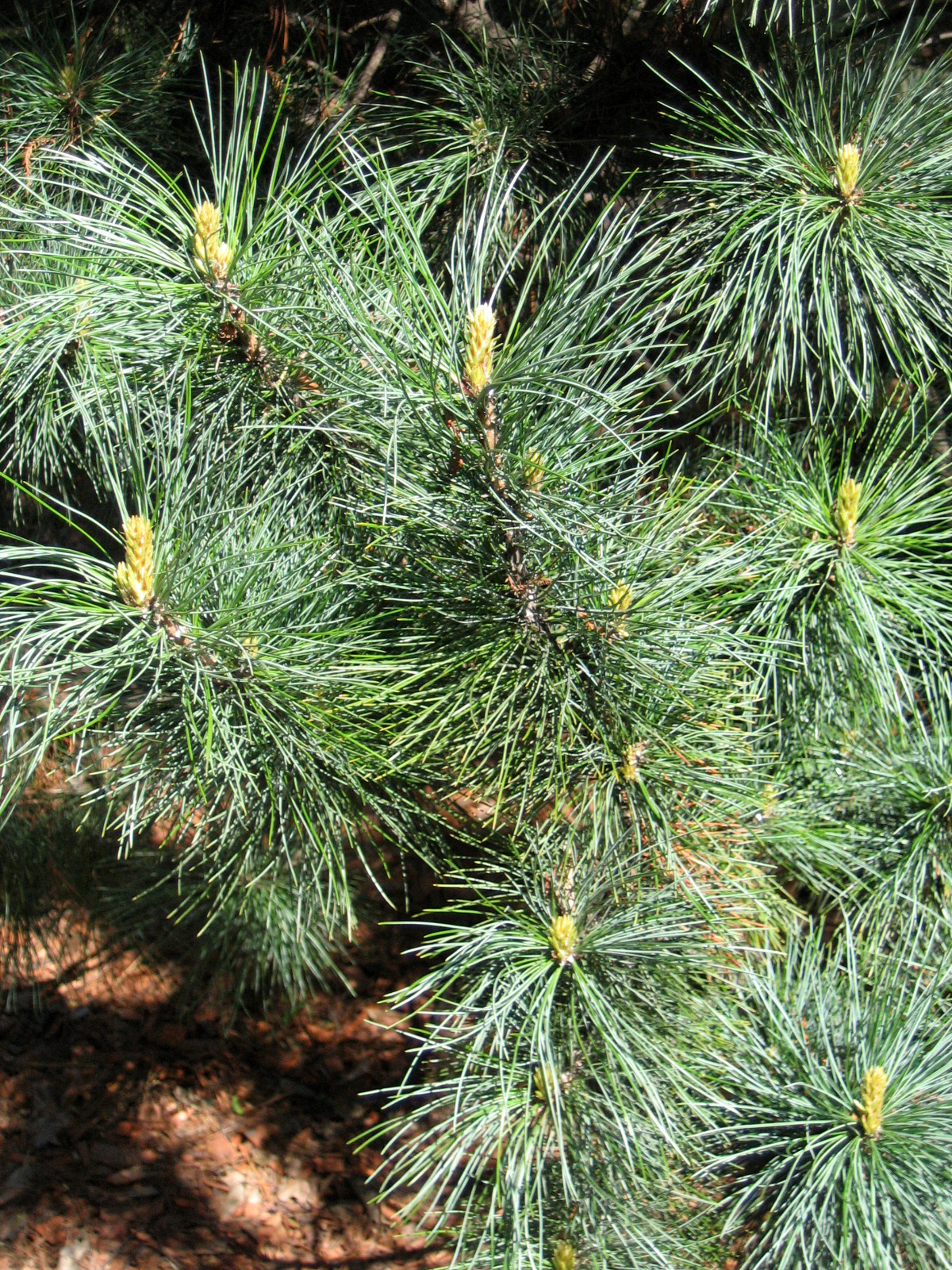 Korean Pine (Pinus koraiensis), cultivated in Wrocław University Botanical Garden, Wrocław, Poland.